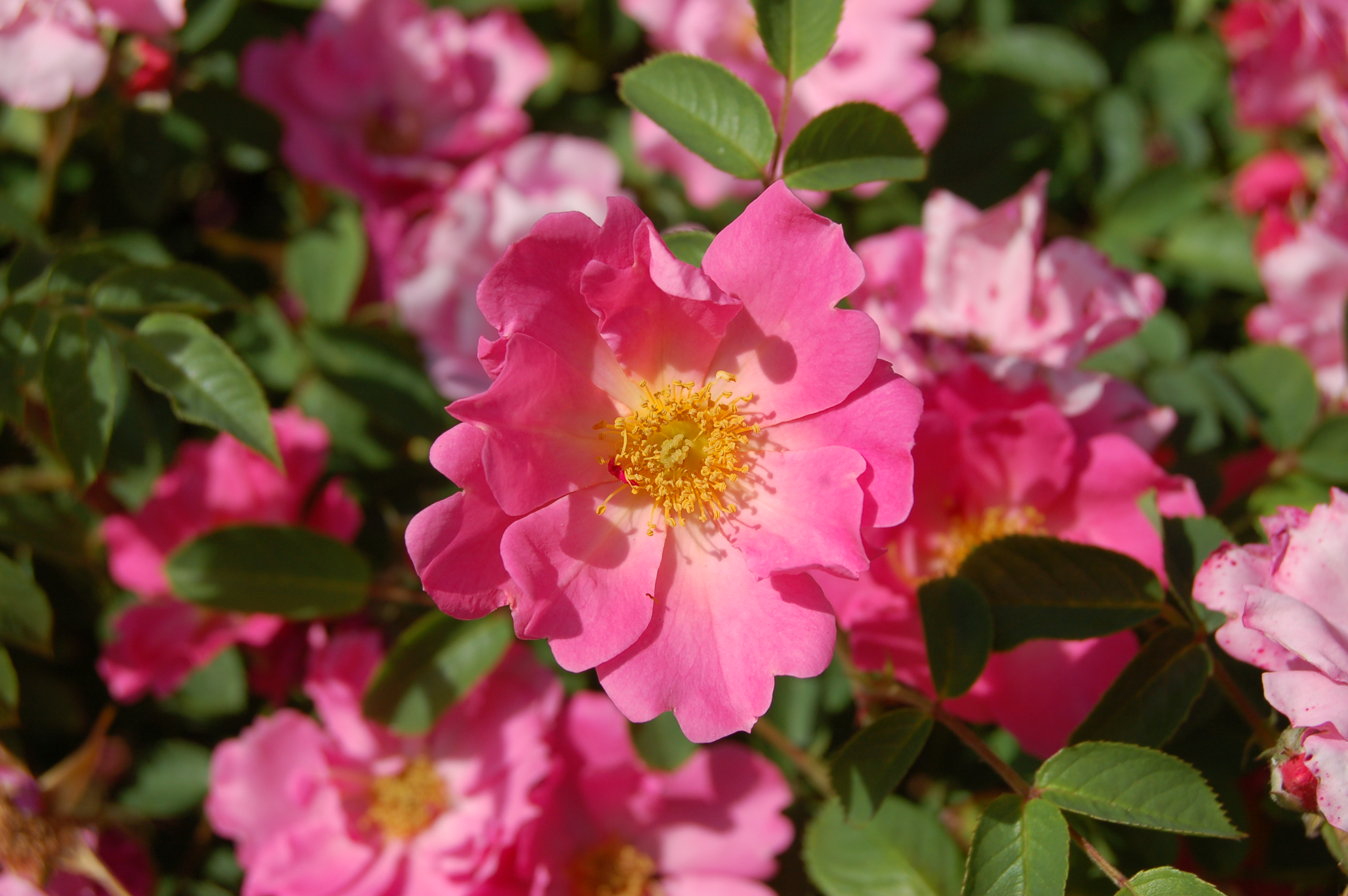 unidentified roses at Rosarium Uetersen, originally misidentified as Rosa 'Astrid Lindgren'.